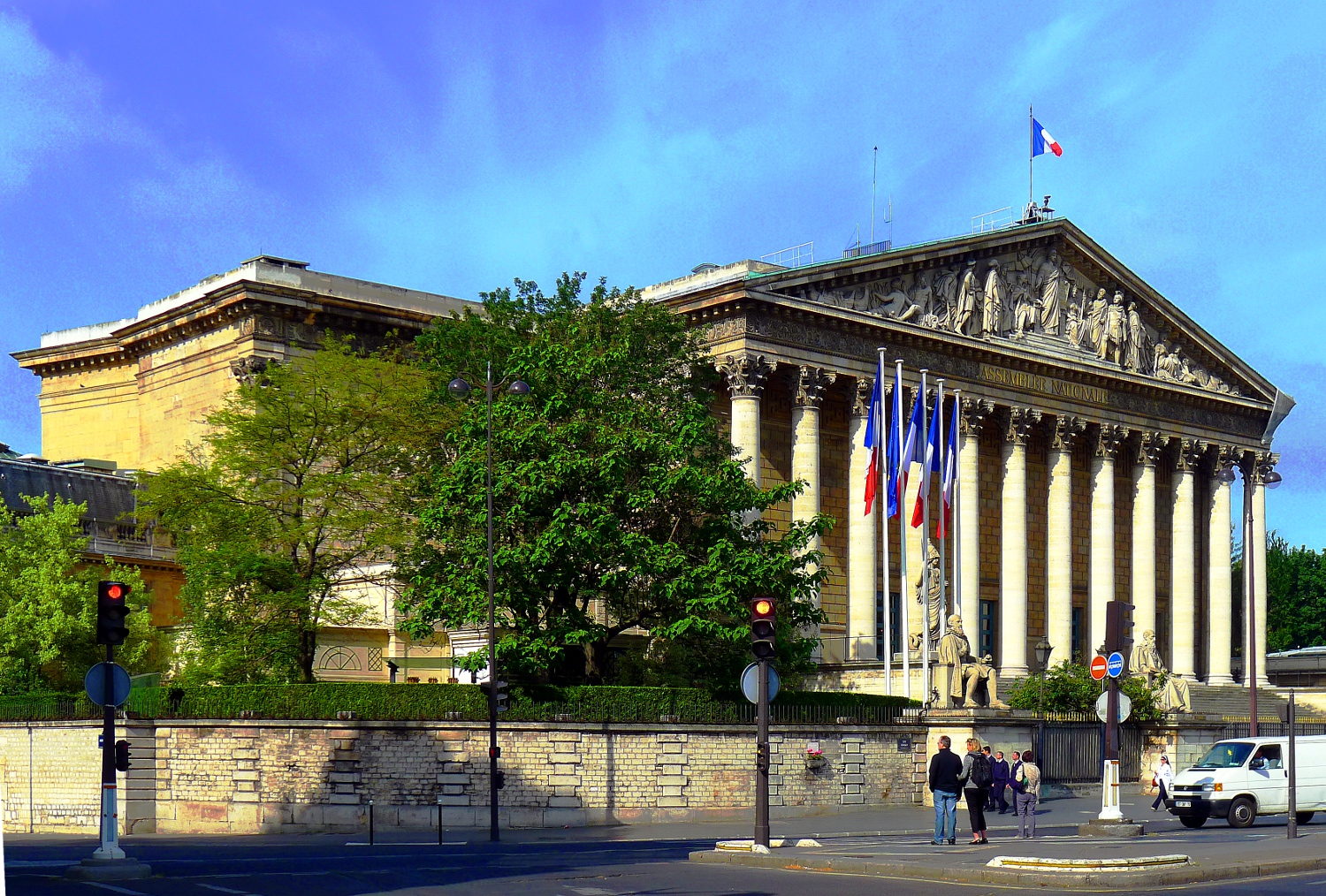 Palais Bourbon - Paris